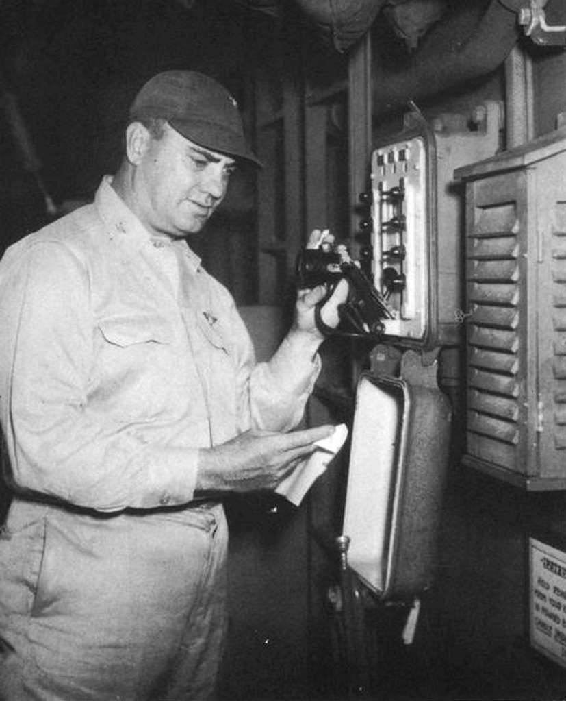 Captain Jackson R. Tate, U.S. Navy, announces the surrender of Japan aboard the aircraft carrier USS Randolph (CV-15) on 15 August 1945.